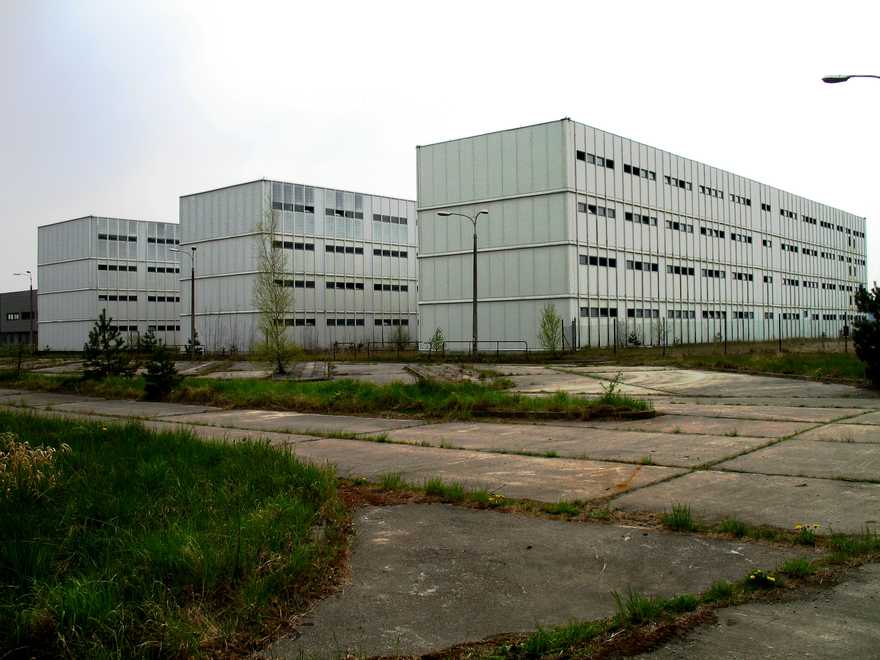 Żarnowiec nuclear power plant - unfinished nuclear plant construction site. Buildings with changing rooms.